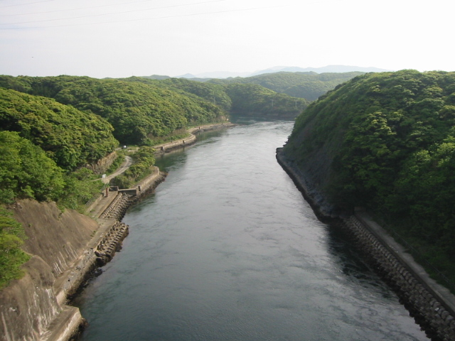 Manzeki Channel, Tsushima, Nagasaki Prefecture, Japan